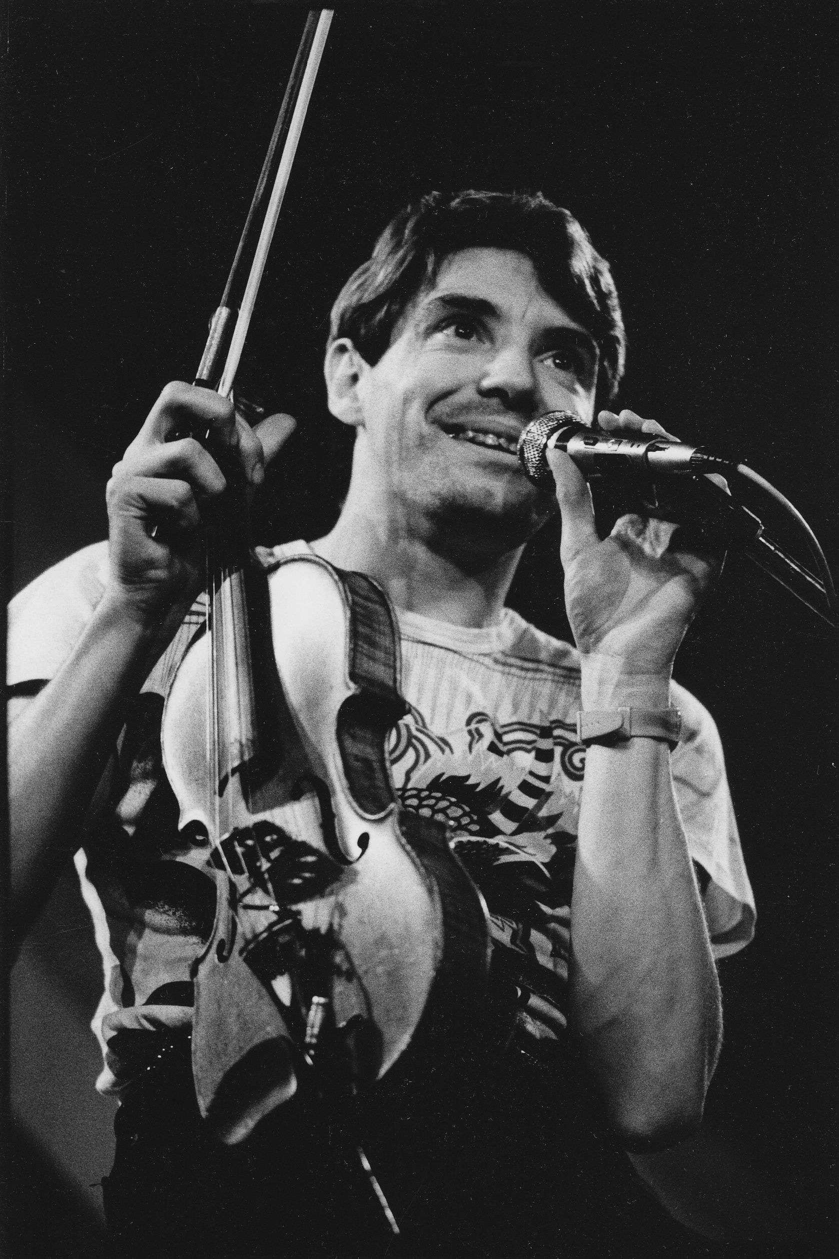 Didier Lockwood, International Jazz Festival, Prague, Lucerna Music Hall, 21 October 1984